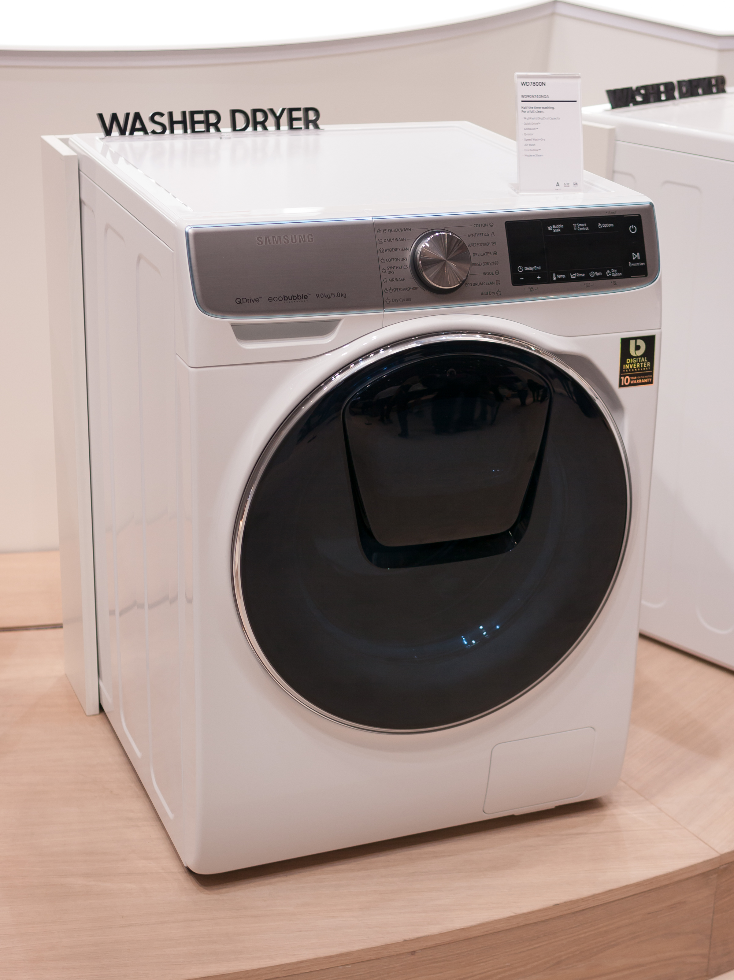 Samsung washer dryer WD90N740NOA at Internationale Funkausstellung 2018.